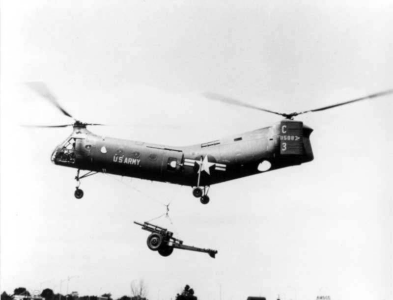 A U.S. Army Vertol CH-21C Shawnee (s/n 51-15883) transporting an M101 105 mm howitzer, 1960s.